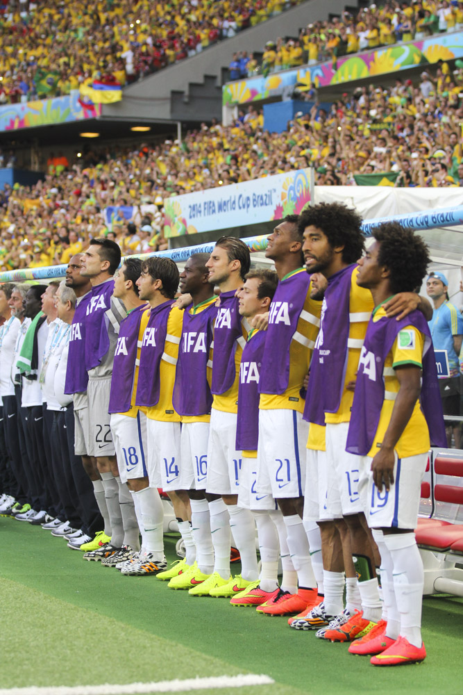 Brazil and Colombia match at the FIFA World Cup 2014-07-04